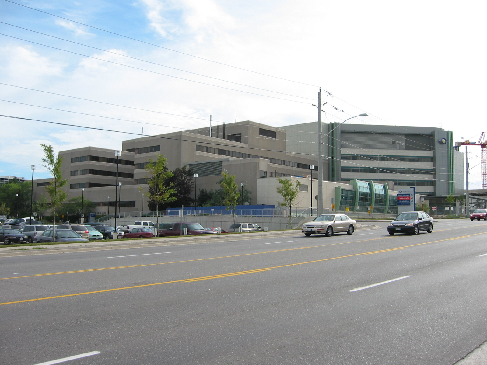 Southlake Regional Health Centre, Newmarket, Ontario.